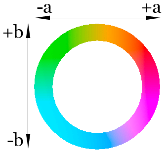 Lab color wheel at luminance 75%